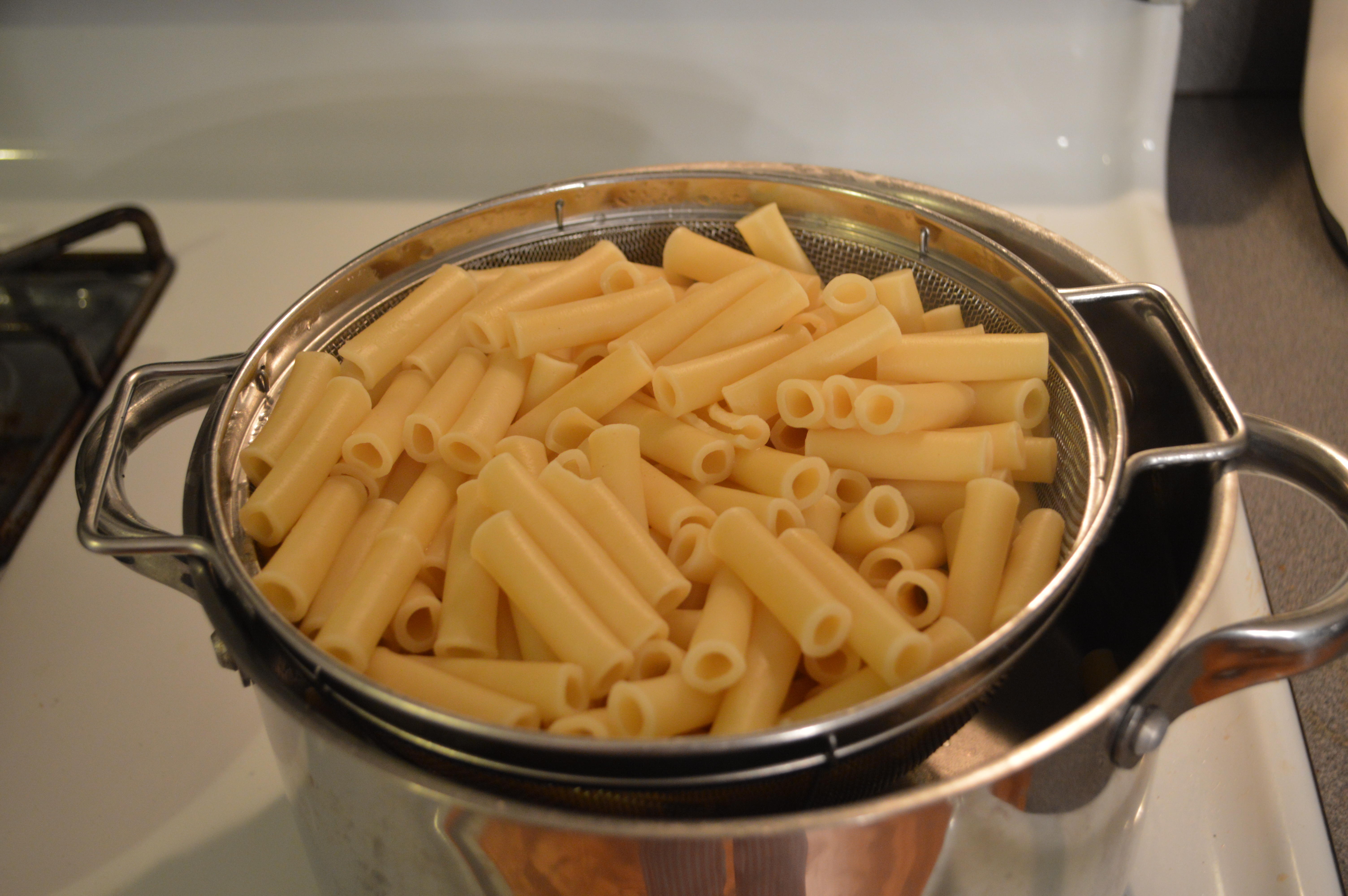 Cooked ziti. This image is a part of the set "Recipe of the Month for November. Baked Ziti". See also File:RecipeoftheMonthNov SJ (10807566674).jpg